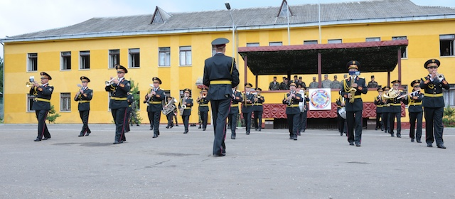 The Army Academy Band from the Ukrainian Armed Forces performs during the Rapid Trident 2012 opening ceremony held at the International Peacekeeping and Security Center in Yavoriv, Ukraine, July 16. Rapid Trident supports interoperability among Ukraine, the United States, NATO and Partnership for Peace member nations. Approximately 1,400 personnel from 16 different nations are participating in the exercise which will consist of multi-national academic course and situational and field training exercises. (Photo by U.S. Army Staff Sgt. Brooks Fletcher, U.S. Army Europe Public Affairs)